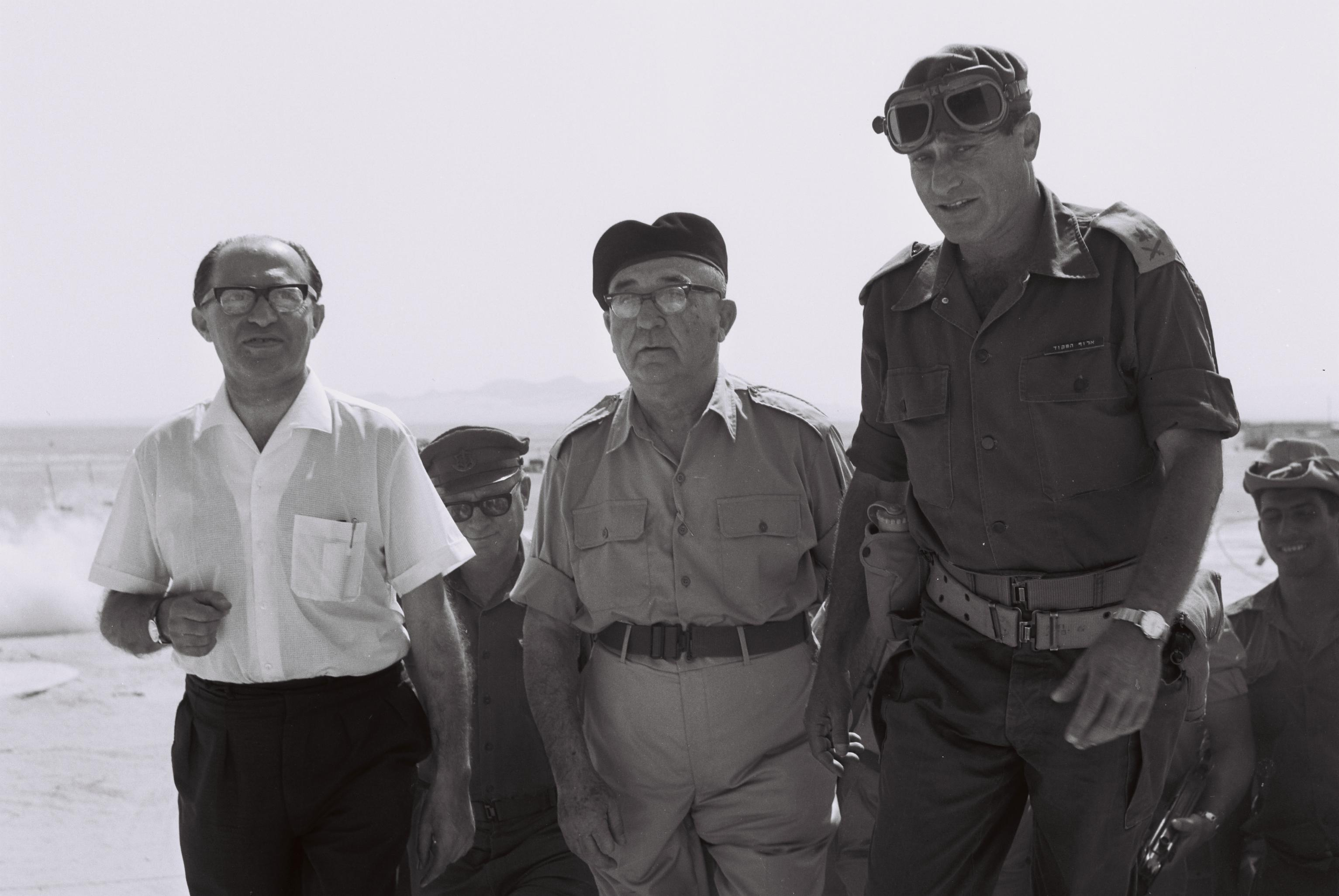 P.m. Levi Eshkol (c) accompanied by min. Menahem Begin (l) and o.c. southern command aluf Gavish visiting troops in Sinai.